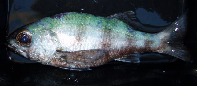 Neoscombrops pacificus. Locality: Off Nouméa, New Caledonia. Female, Fork length 320 mm, Weight 642 grams. Date 2008-10-01. Specimen identified by Bernard Séret, MNHN-IRD. Photograph by J.R. Olivier, also in Fishbase. See also photograph of same individual fish, preserved, with very different colours.